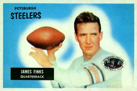 1955 Bowman football card of Jim Finks of the Pittsburgh Steelers card number #120. PD-not-renewed.